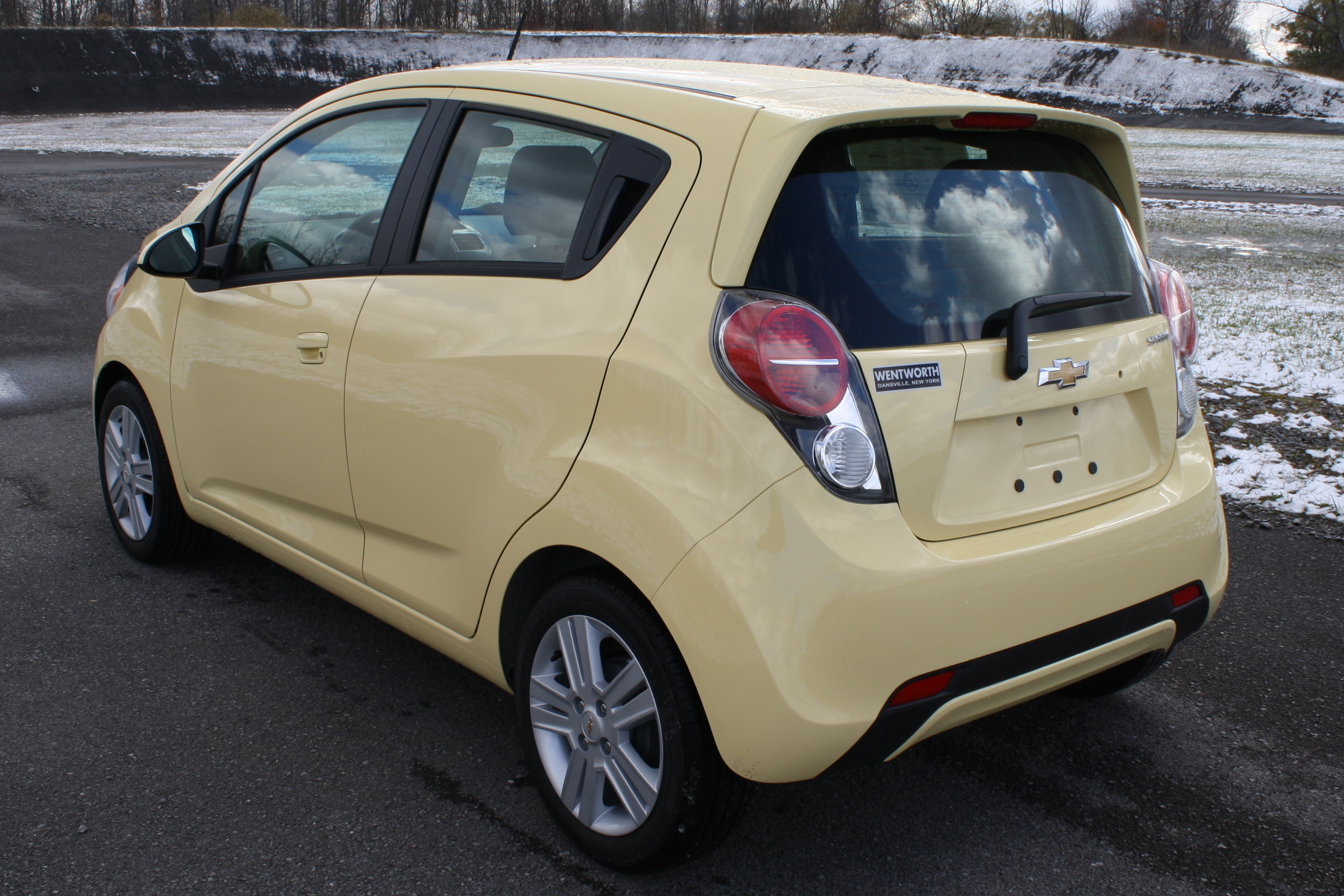 2014 Chevrolet Spark 1LS, photographed in USA.